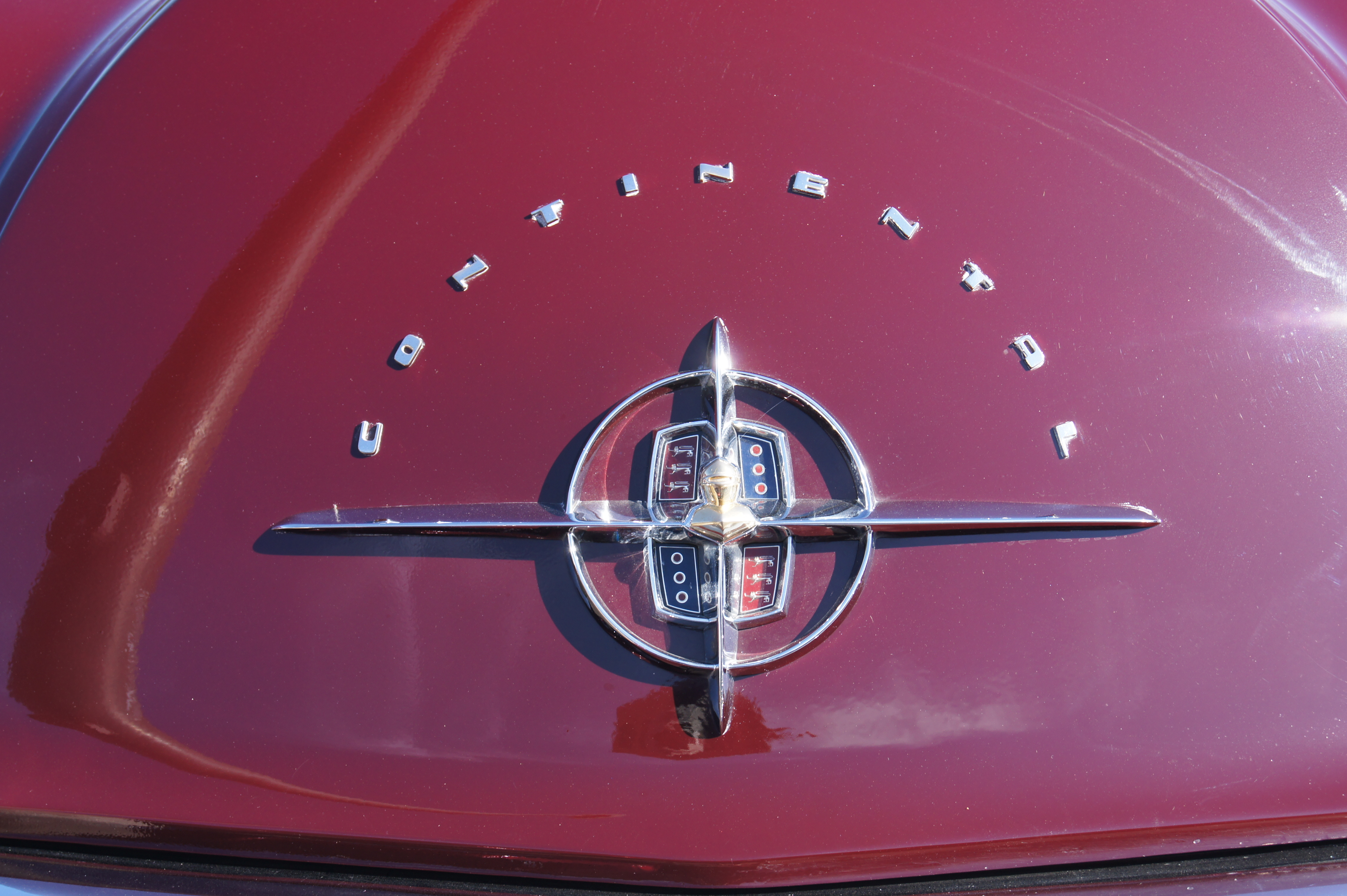 Lincoln & Continental Owners Club 2012 Mid-America National Meet August 15 - 19, 2012 Park Plaza Hotel, 4460 West 78th Street Circle Bloomington, Minnesota Hosted by the North Star Region